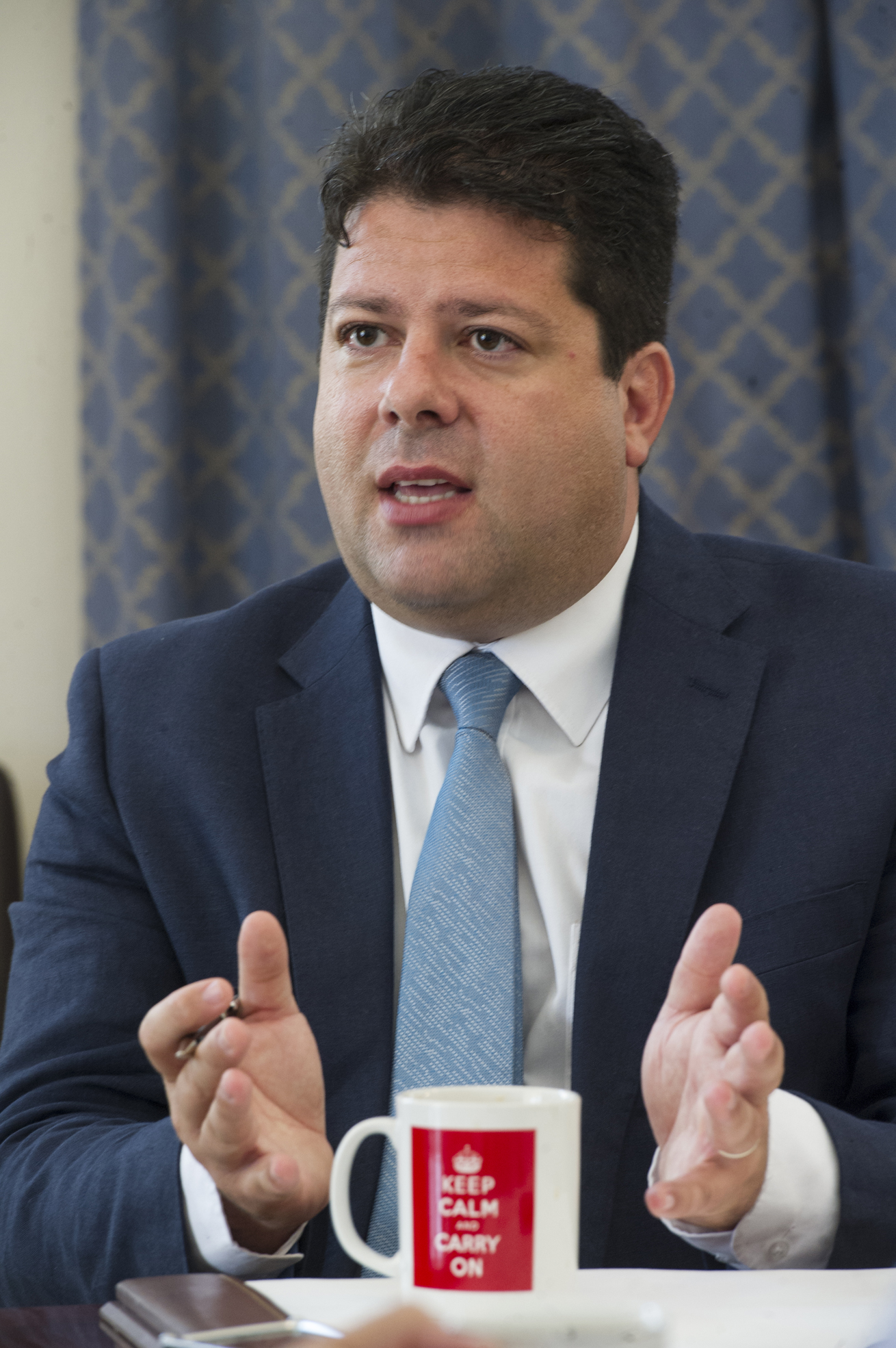 Chief Minister of Gibraltar Fabian Picardo at his office in 6 Convent Place.